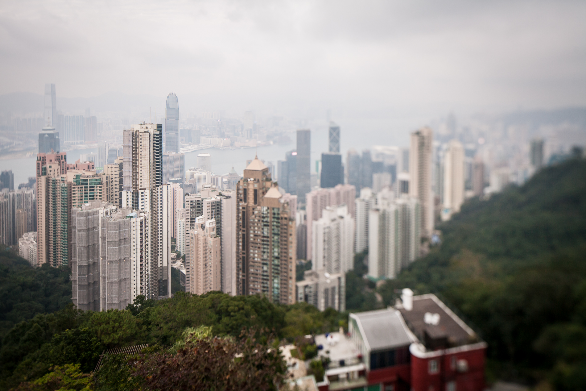 View from Victoria Peak, Hong Kong. The shot was taken with a tilt-shift lens.